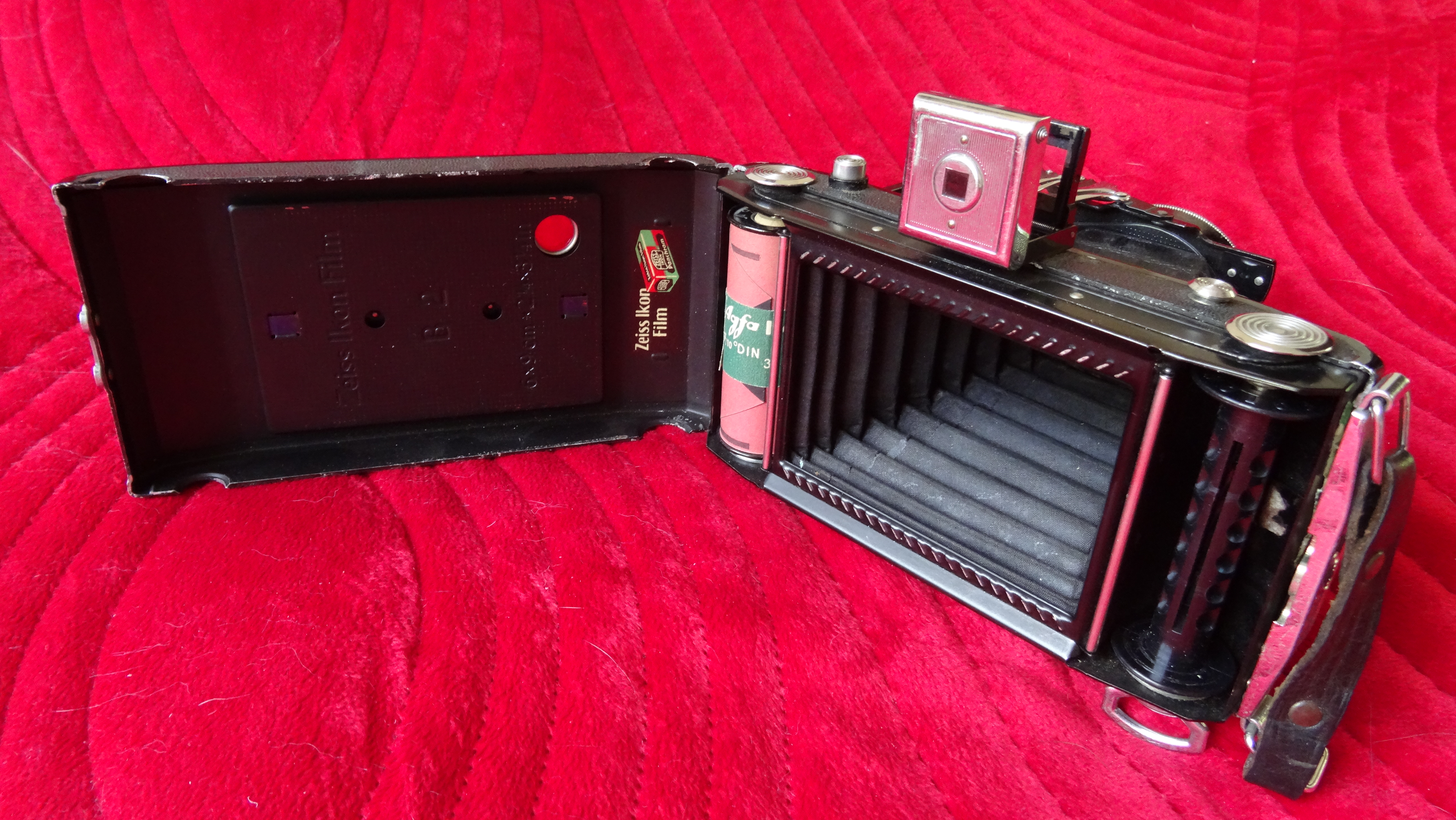 Zeiss Ikon Nettar 515-2 camera (1937), opened, view from backside.